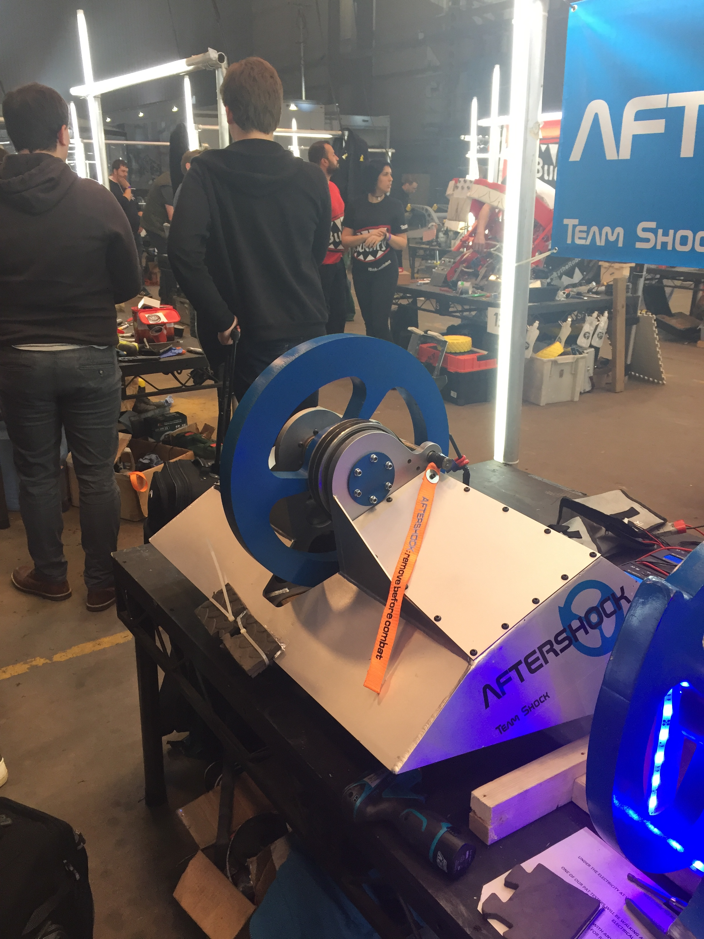 Photo of Aftershock (robot) at the filming of Robot Wars 2017